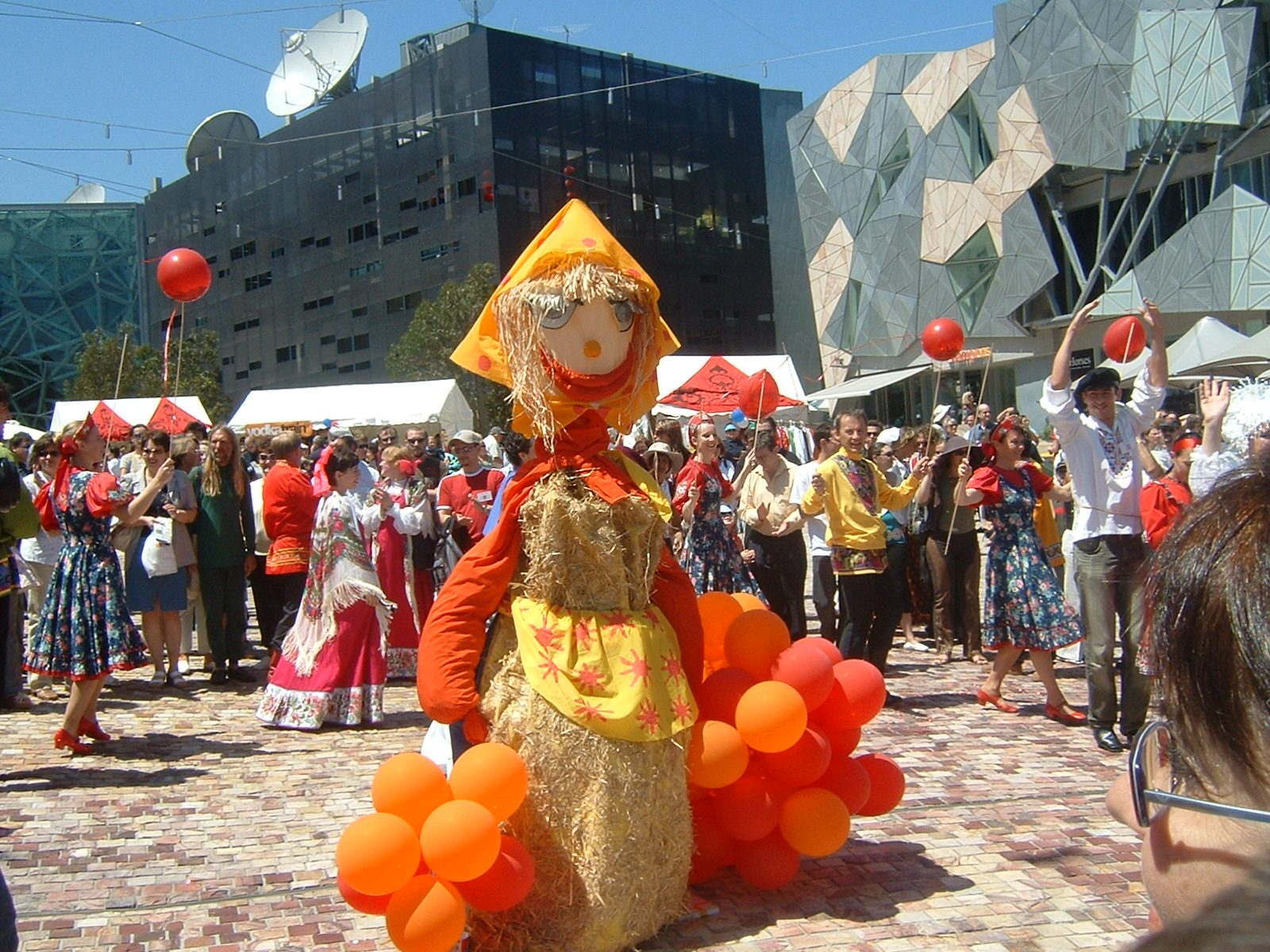 Celebration of maslenitsa in Melbourne Australia, February 5 2006.